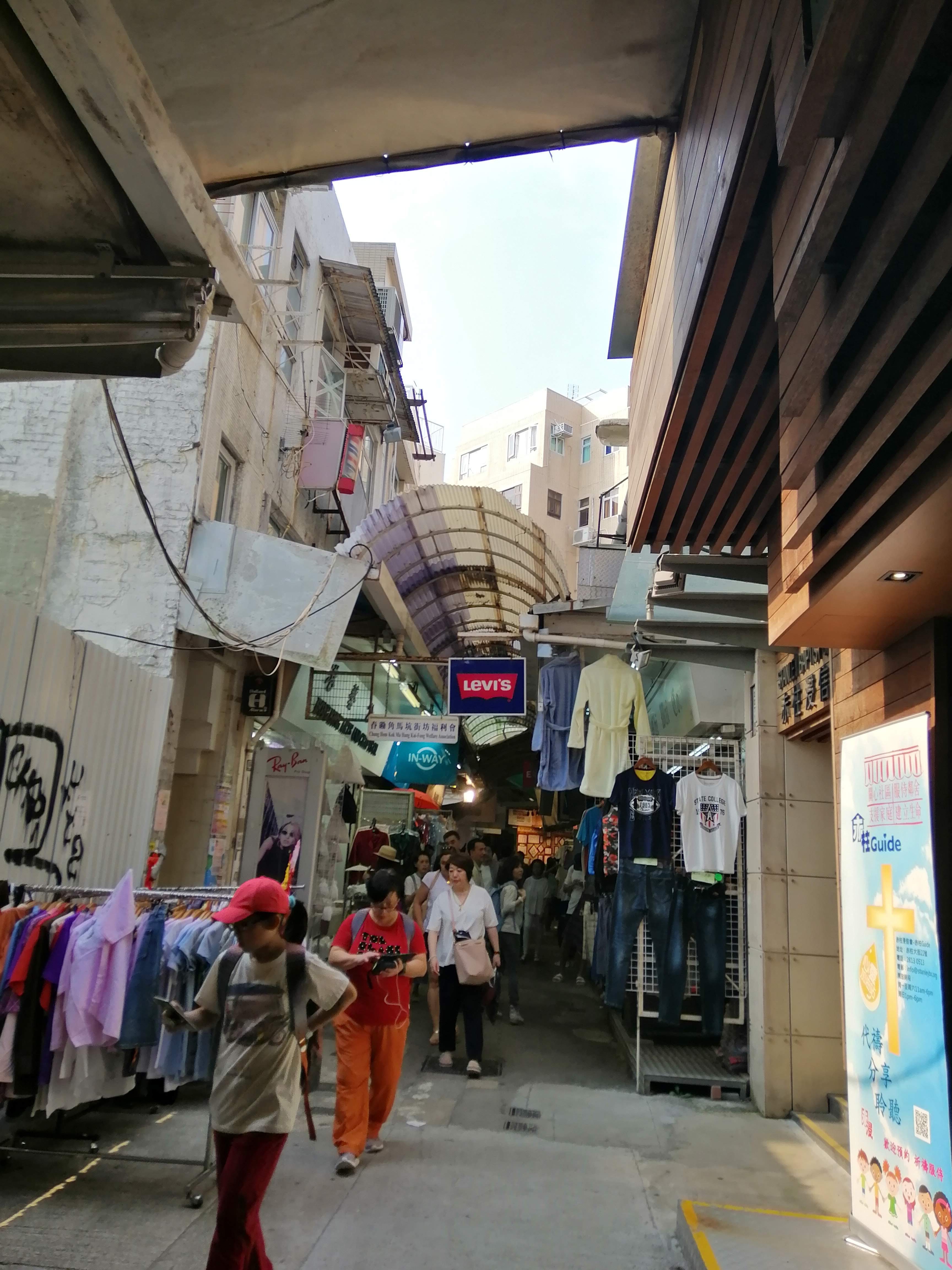 stanley view 4